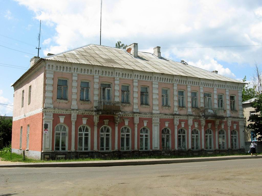 Dwelling house (end of XIX - early XX centuries).